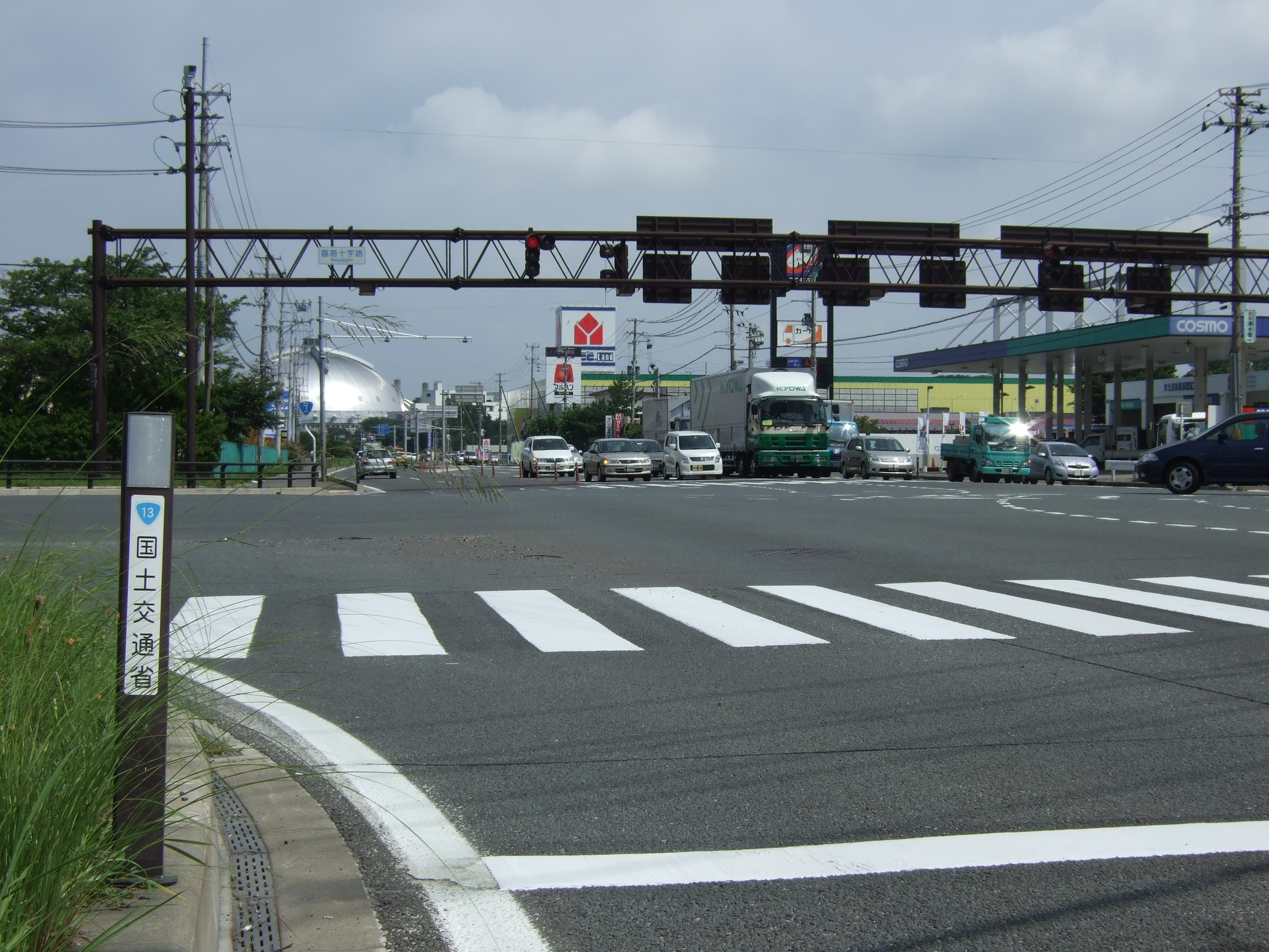 Rinkai-zyuuziro (crossroad of Japan national route #7, #13, and Akita prefectural route #26), in Ookawabata, Kawasiri-mati, Akita city, Akita prefecture.